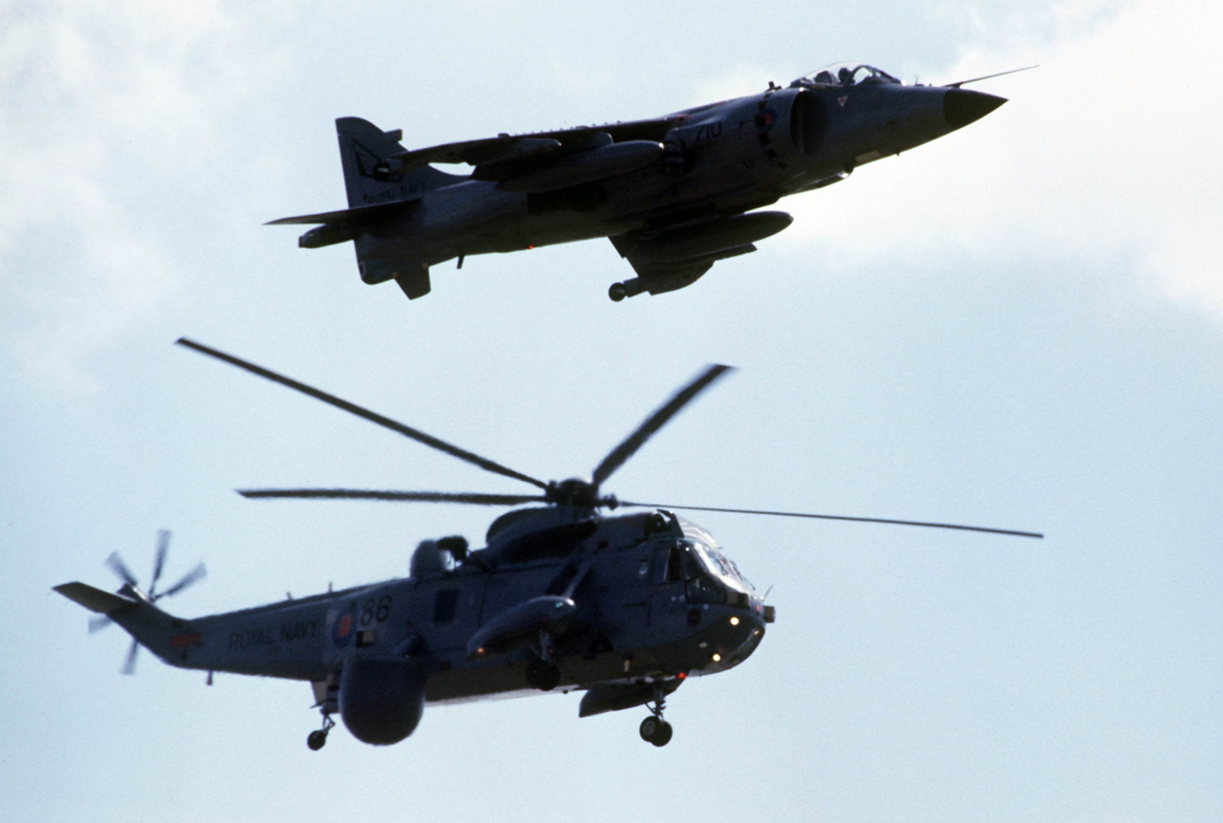 A Royal Navy Westland Sea King AEW helicopter and an British Aerospace Sea Harrier FRS.1 hovering during "Air Fete '88" at RAF Mildenhall, Suffolk (UK), on 28 May 1988.